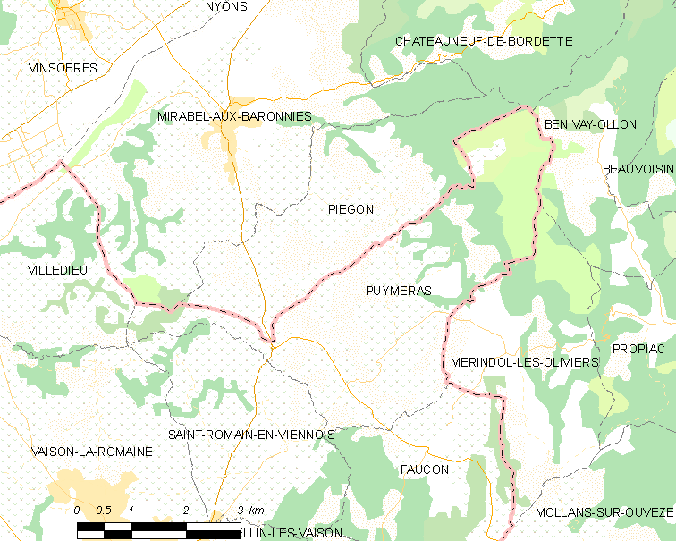 Map of French municipality Puyméras